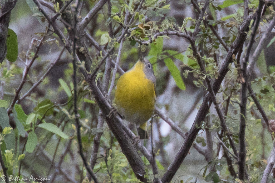 Nashville Warbler | Santa Ana NWR | Mission | TX|2018-03-15|08-49-24.jpg